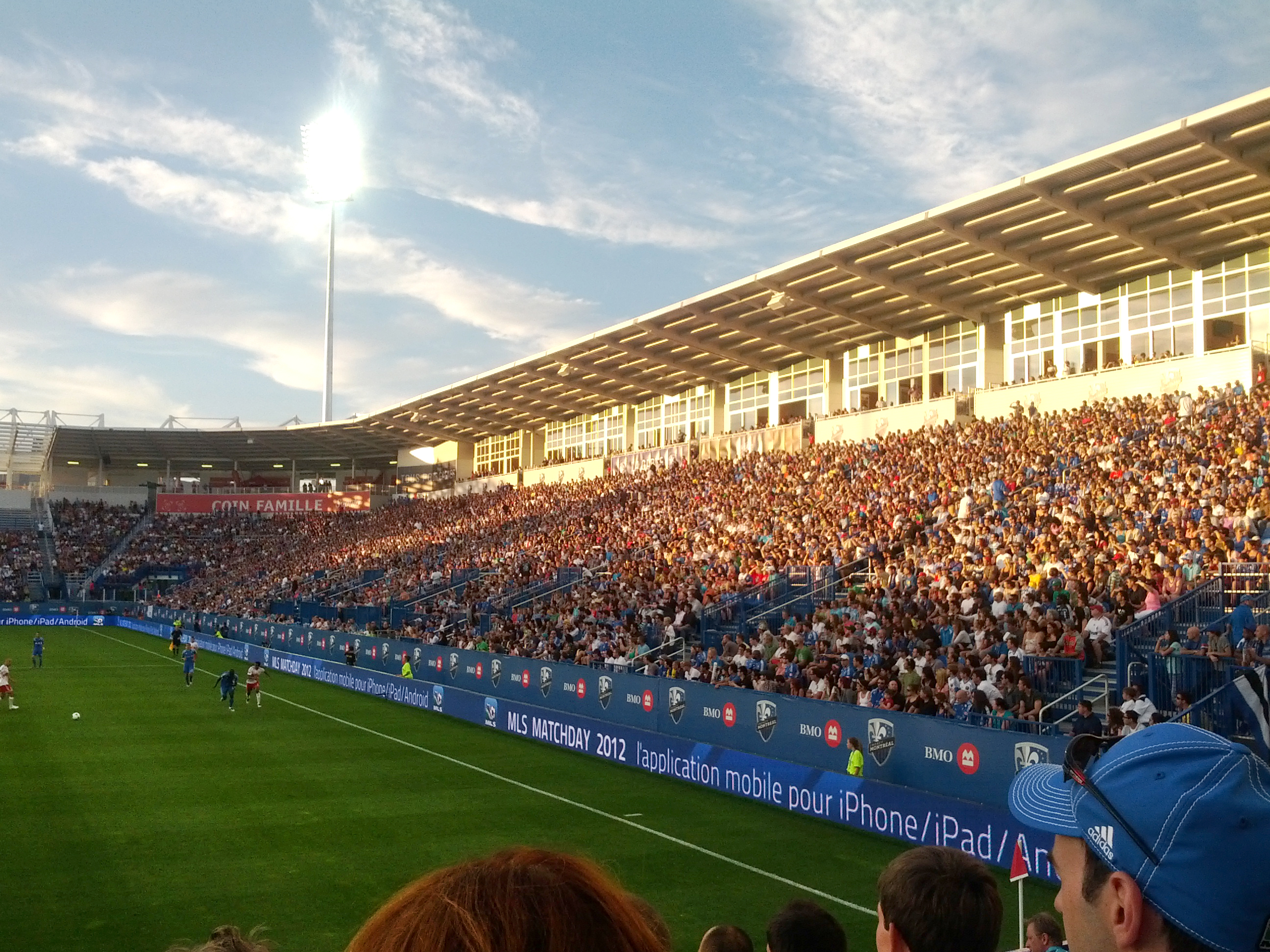 View of Saputo Stadium in Montreal at a local Major League Soccer game of the Impact against visiting Red Bull New York, 28 July 2012.